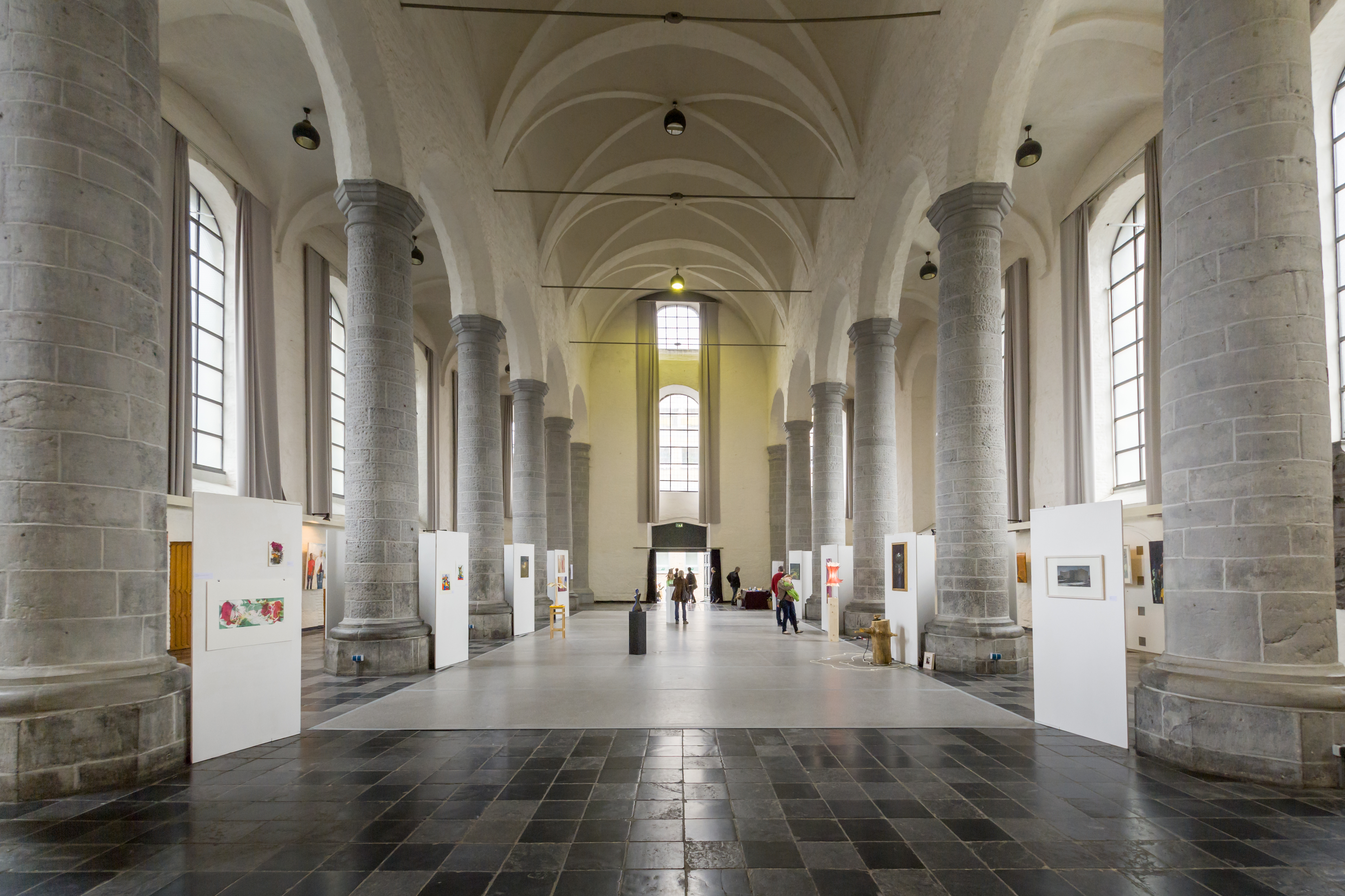 Aula Carolina in Aachen, Germany